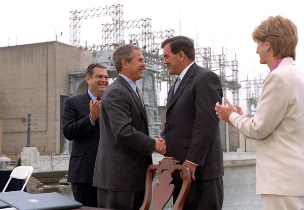 President George Bush shakes hands with Gov. Tom Ridge after signing two executive orders Friday, May 18, in Pennsylvania. Secretary of Energy Spencer Abraham and Secretary of the Interior Gale Norton are at left and right. WHITE HOUSE PHOTO BY ERIC DRAPER decoration